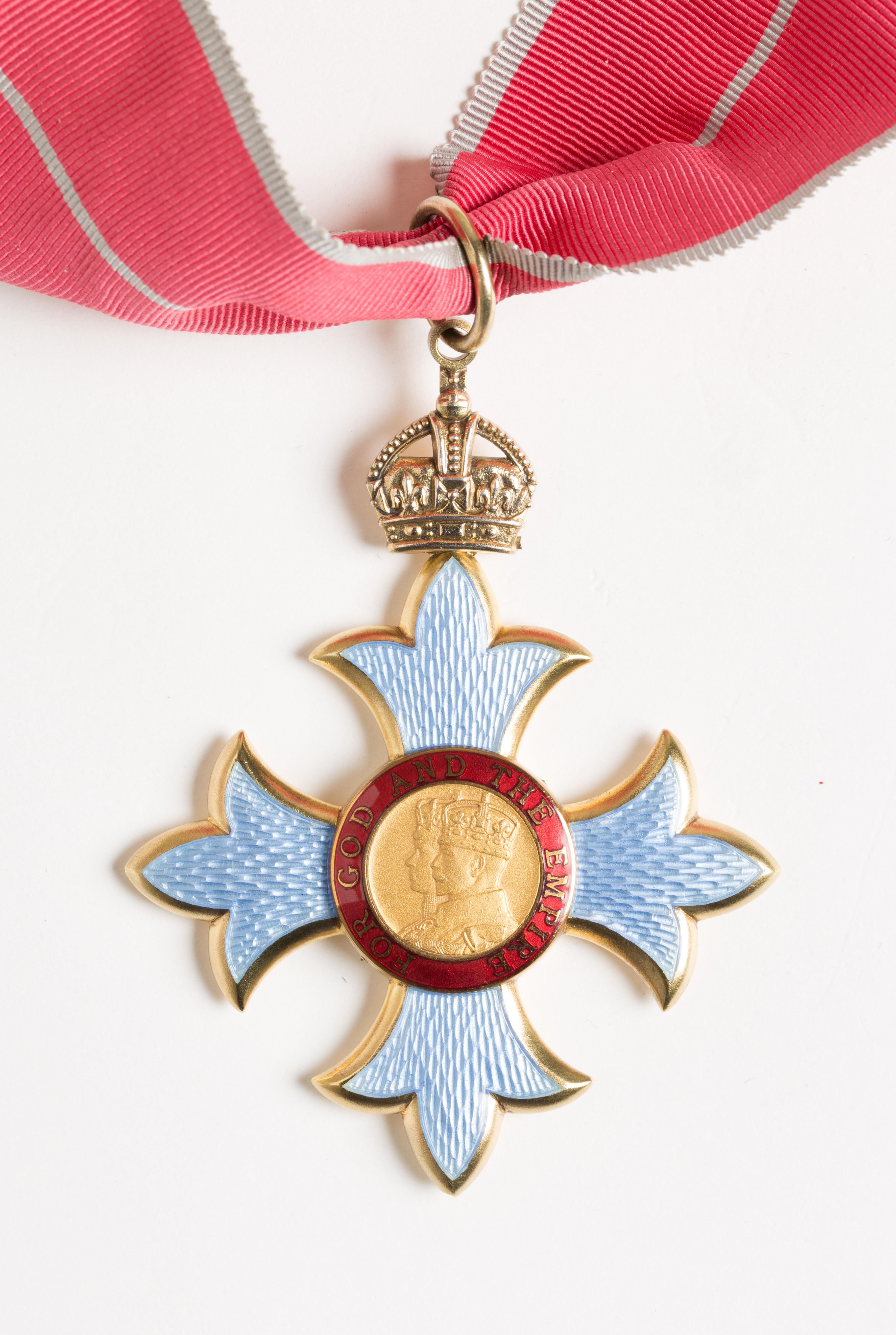 The Most Excellent Order of the British Empire - Commander (Mil) - CBE - neck badge Awarded to Air Vice Marshal (AVM) Charles M Gibbs, CB CBE, RNZAF RAF metal and enamel cross shaped medal; 64mm wide; ring suspension; with ribbon obverse- pale blue enamelled cross with crimson ring with motto FOR GOD AND COUNTRY with George V and Queen Mary reverse- Royal Cypher ribbon- grosgrain ribbon; 44mm wide; crimson with white striped edges and white stripe down centre